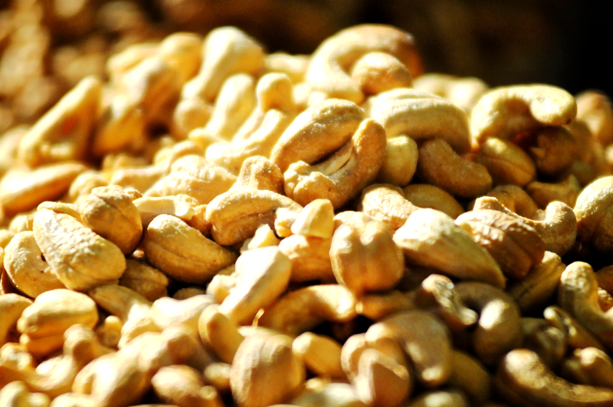 Cashew nuts